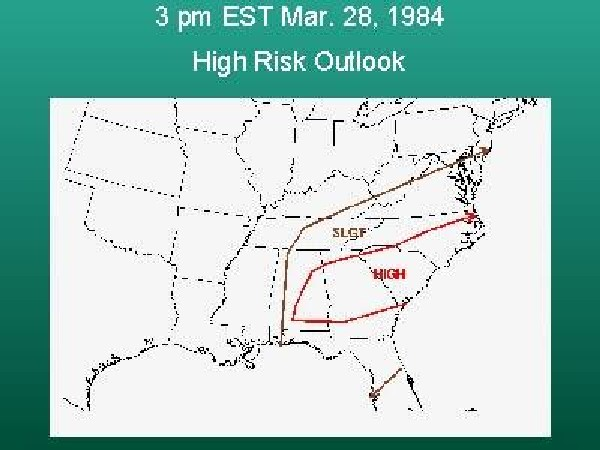 High risk severe weather outlook issued by the Severe Local Storm Warning Center for March 28, 1984